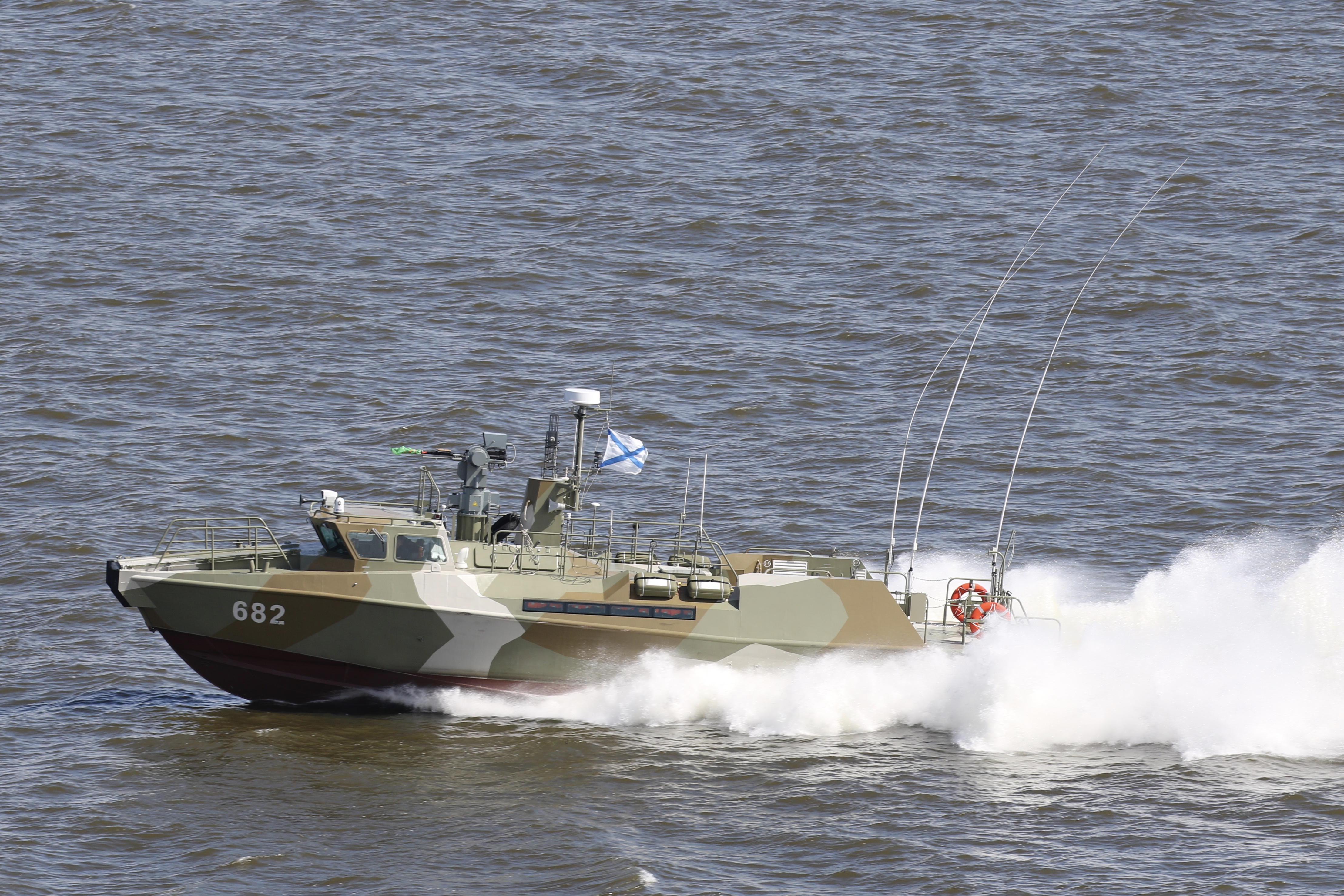 A patrol boat built as part of Project 03160 patrol boat by the Pella Shipyard.